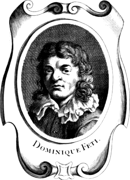 Portrait of Domenico Fetti (1589-1624), Italian painter